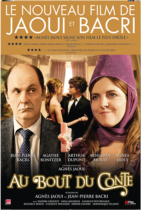 Poster of the movie Under the Rainbow (Q2870309)